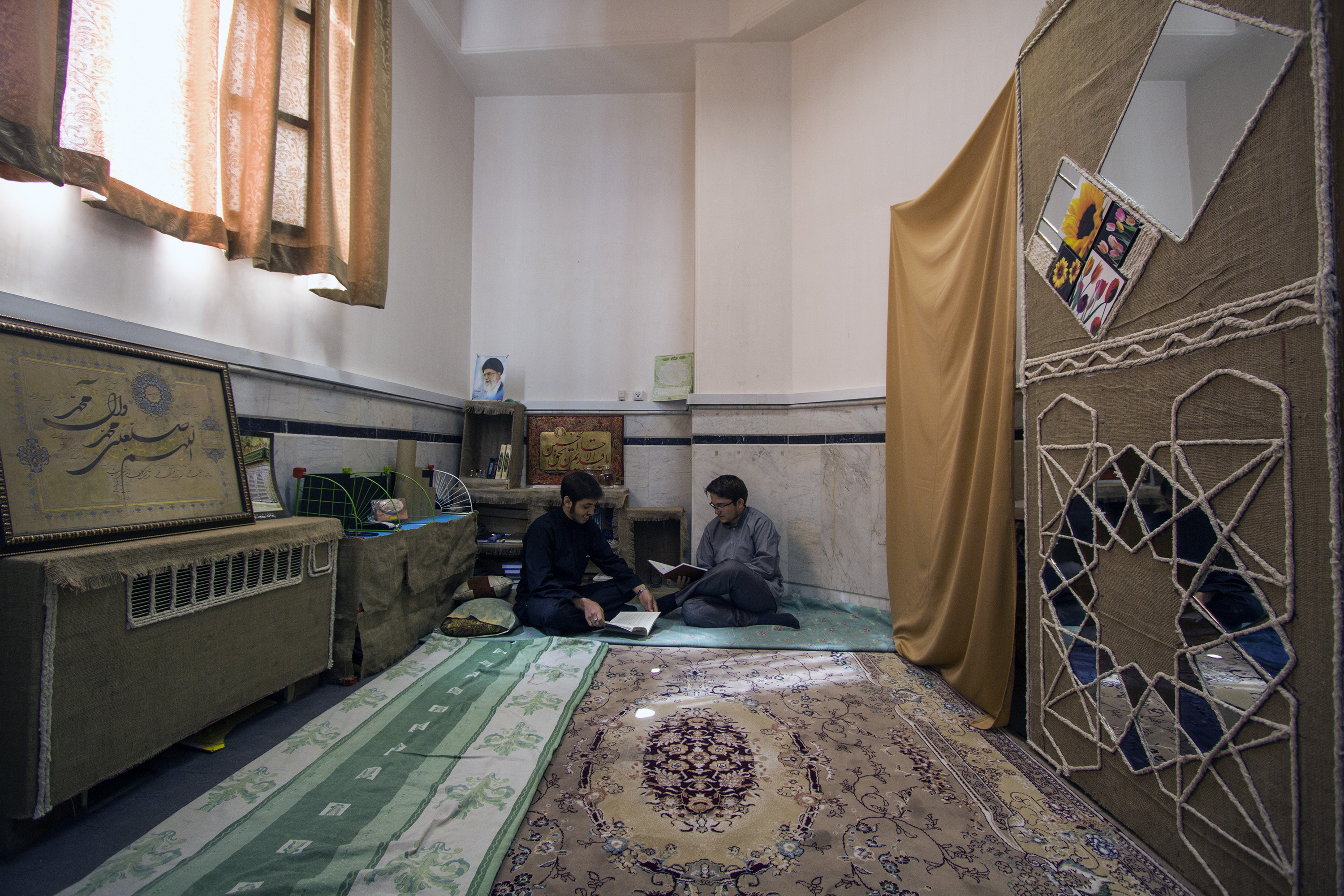 Clergy are some of the main and important formal leaders within certain religions.